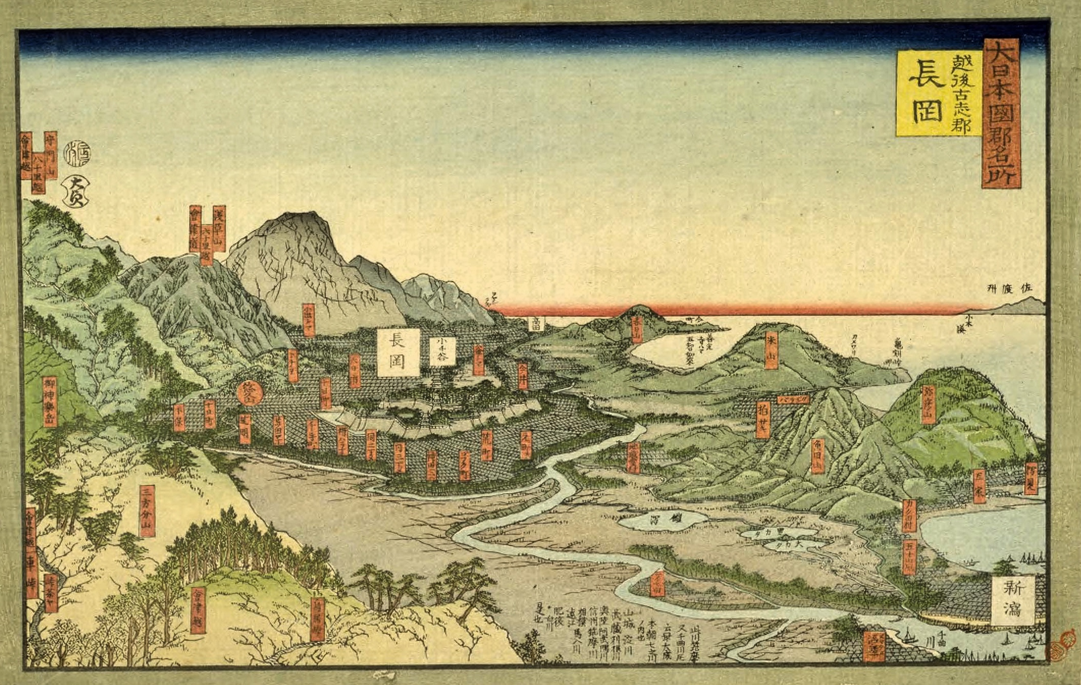 "Dainihon kokugun meisyo - Echigo Koshigun - Nagaoka"